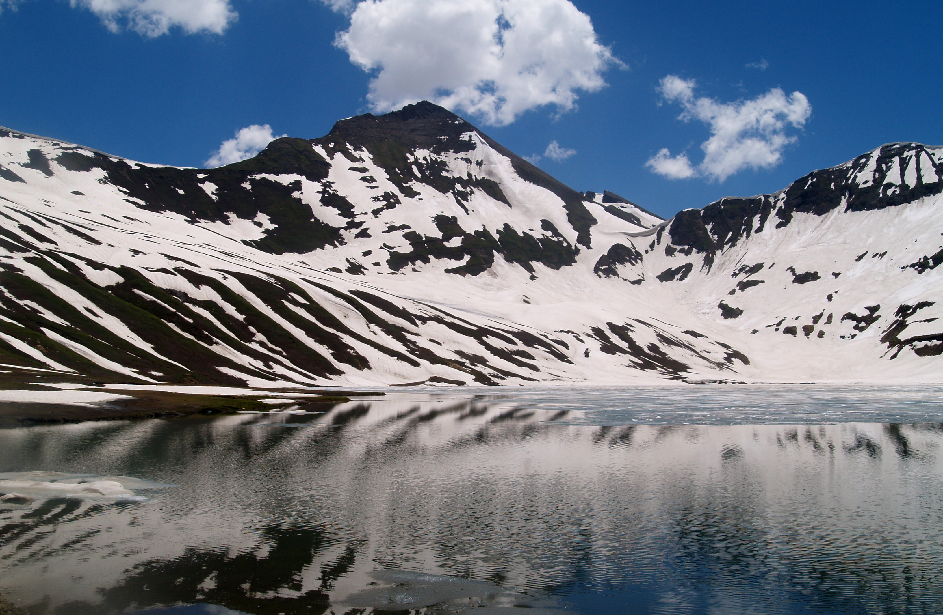 Dudipatsur Lake early summer